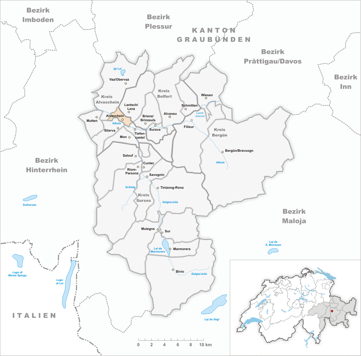 Municipality Alvaschein